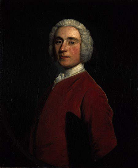 Portrait of General James Murray, 1722 - 1794. Governor of Quebec and Minorca by Allan Ramsay.